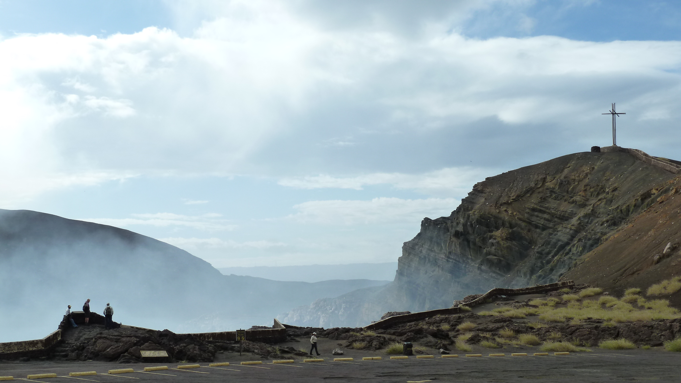 Masaya volcano in Nicaragua.